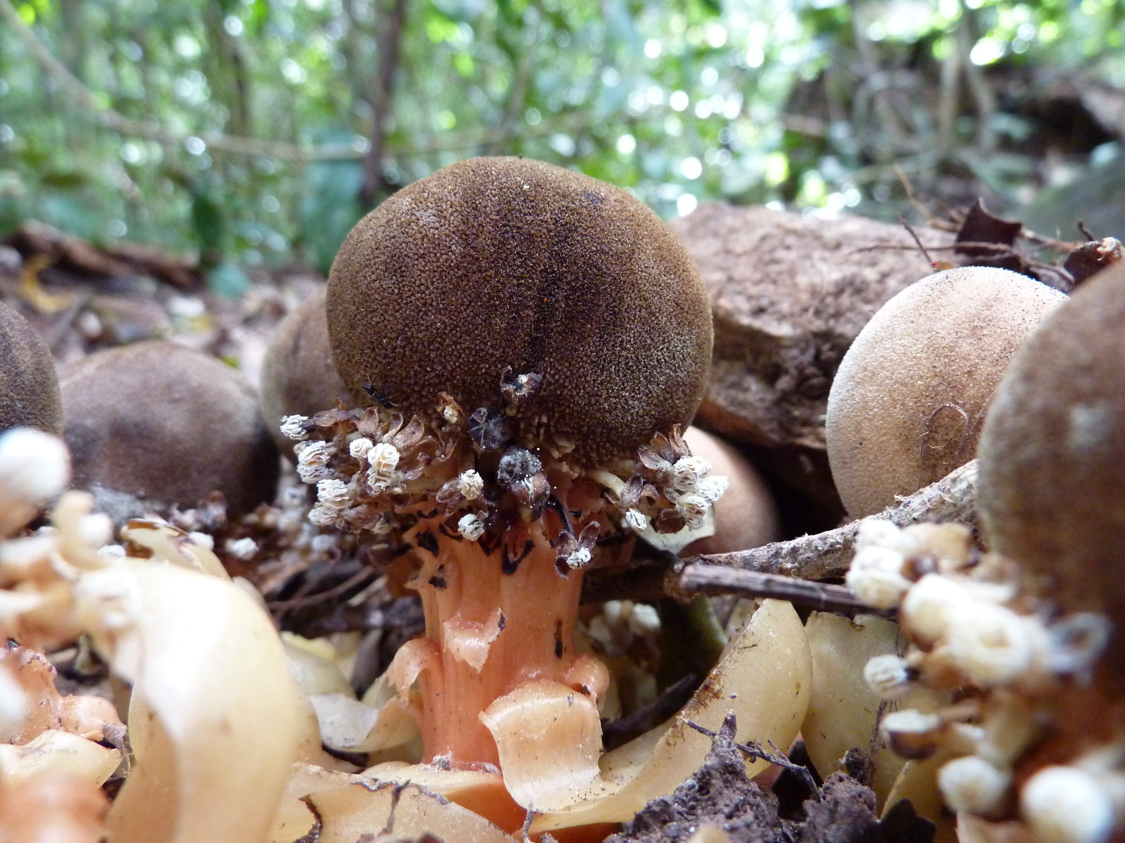 A parasitic flowering plant growing inside tree roots in rainforest near Kuranda (near Cairns) in Queensland.